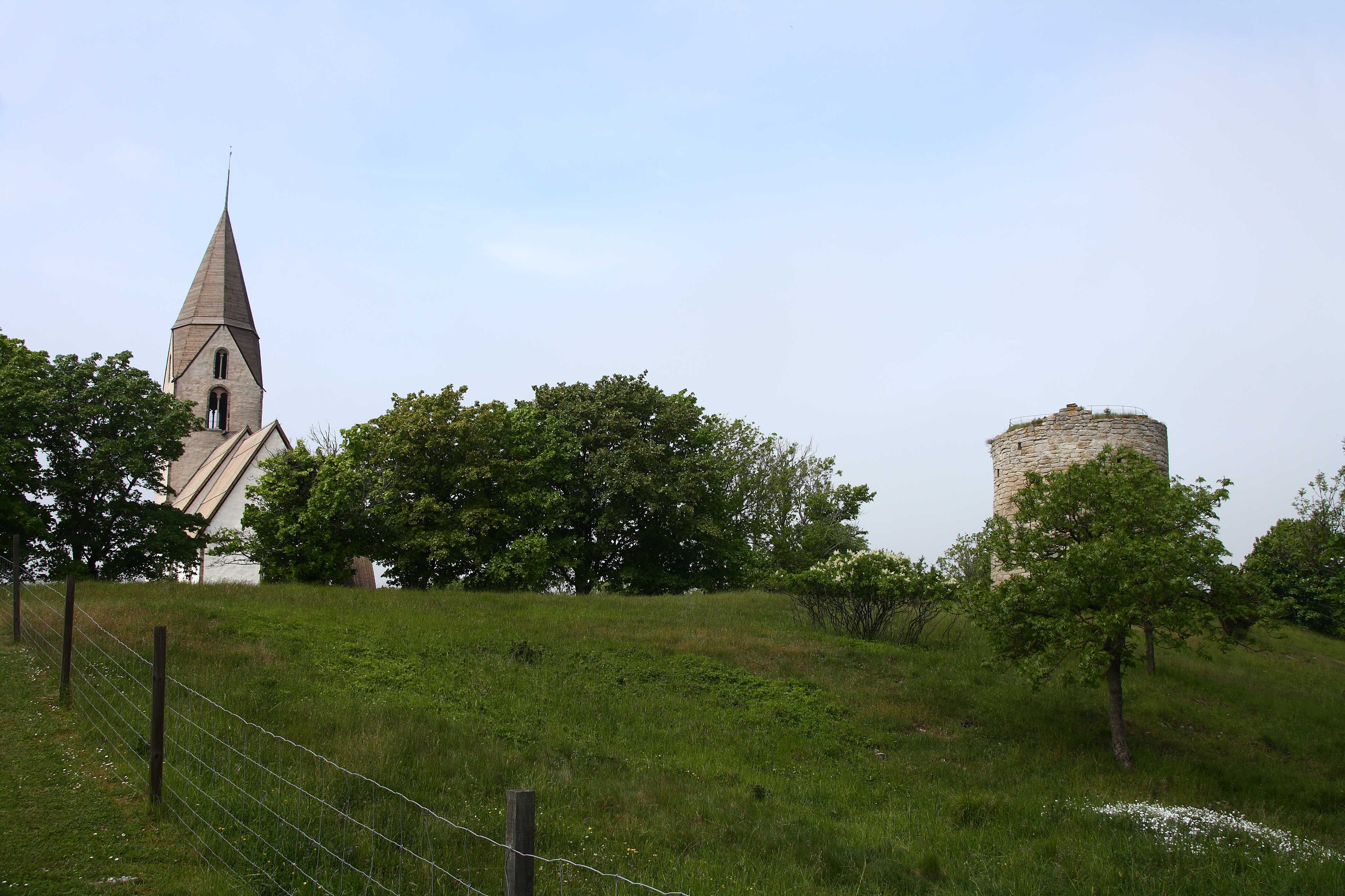 Church and defence tower of Sundre at Gotland.